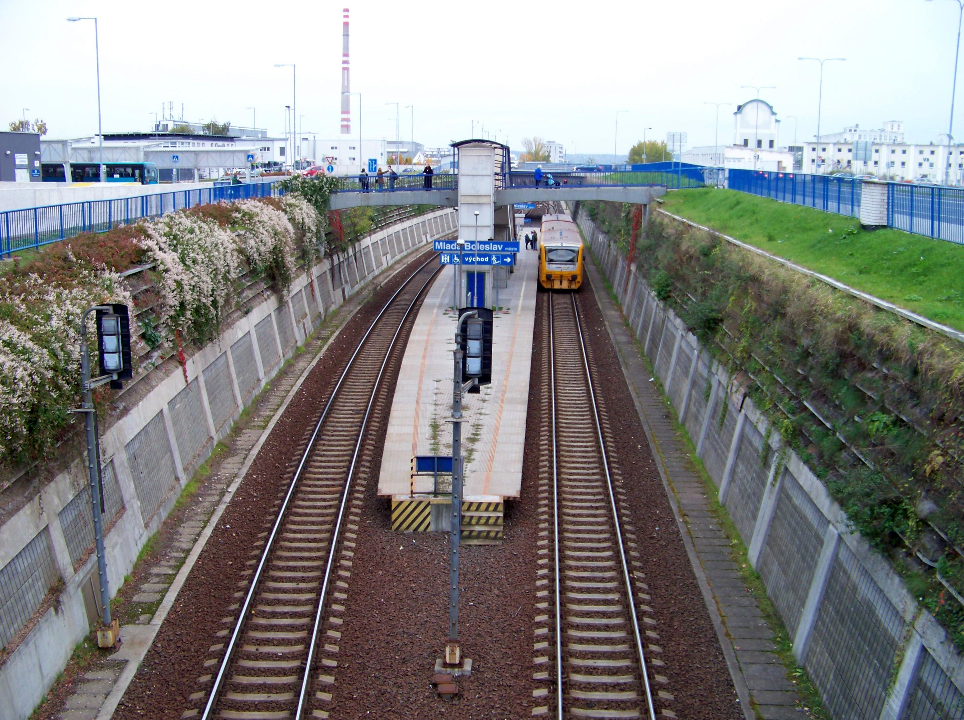 Mladá Boleslav, Central Bohemian Region, the Czech Republic. Train station "Mladá Boleslav město".